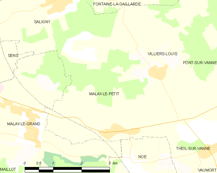 Map of French municipality Malay-le-Petit